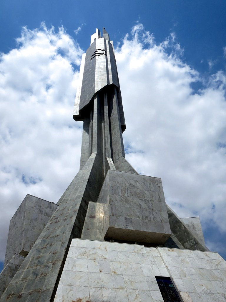 The soaring Memorial Antonio Agostinho Neto (2012) in Luanda holds the mausoleum of Angola's first president.